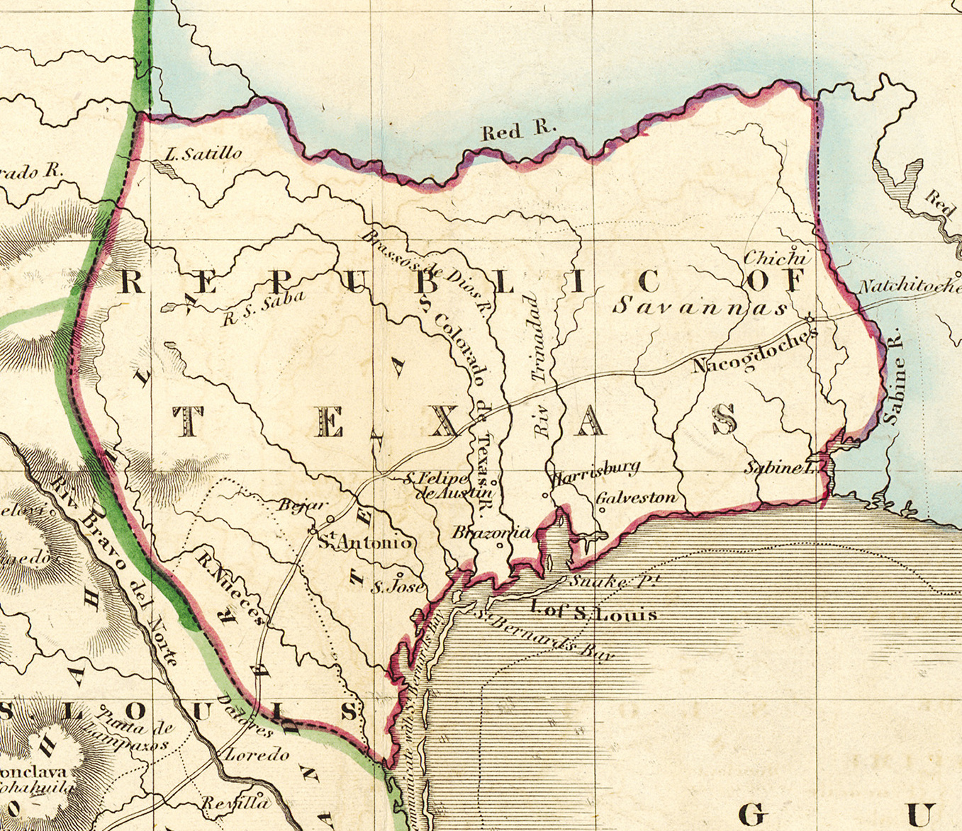 Shortly after Texas declared its independence from Mexico in 1836, the Edinburgh painter, engraver, printer, cartographer, lithographer, and publisher William Home Lizars (1788-1859), brother of Daniel Lizars II (1793-1875) updated the original plate for the map of Mexico & Guatemala to include the new republic. He added the towns of Galveston, Harrisburg, Brazoria, S. Felipe de Austin (although recently destroyed), Bejar, and "S. Jose" (probably intended to represent Goliad). Lizars made no further improvements to the general cartographic shape of the republic except to show the Nueces River as the southern boundary and the western boundary curving to the point where the 100th meridian strikes the Red River. The map continues to show Mexico's administrative districts as Spanish Intendencies (Intendencias) and Internal Provinces (Provincias Internas) over fifteen years since Mexico's independence.